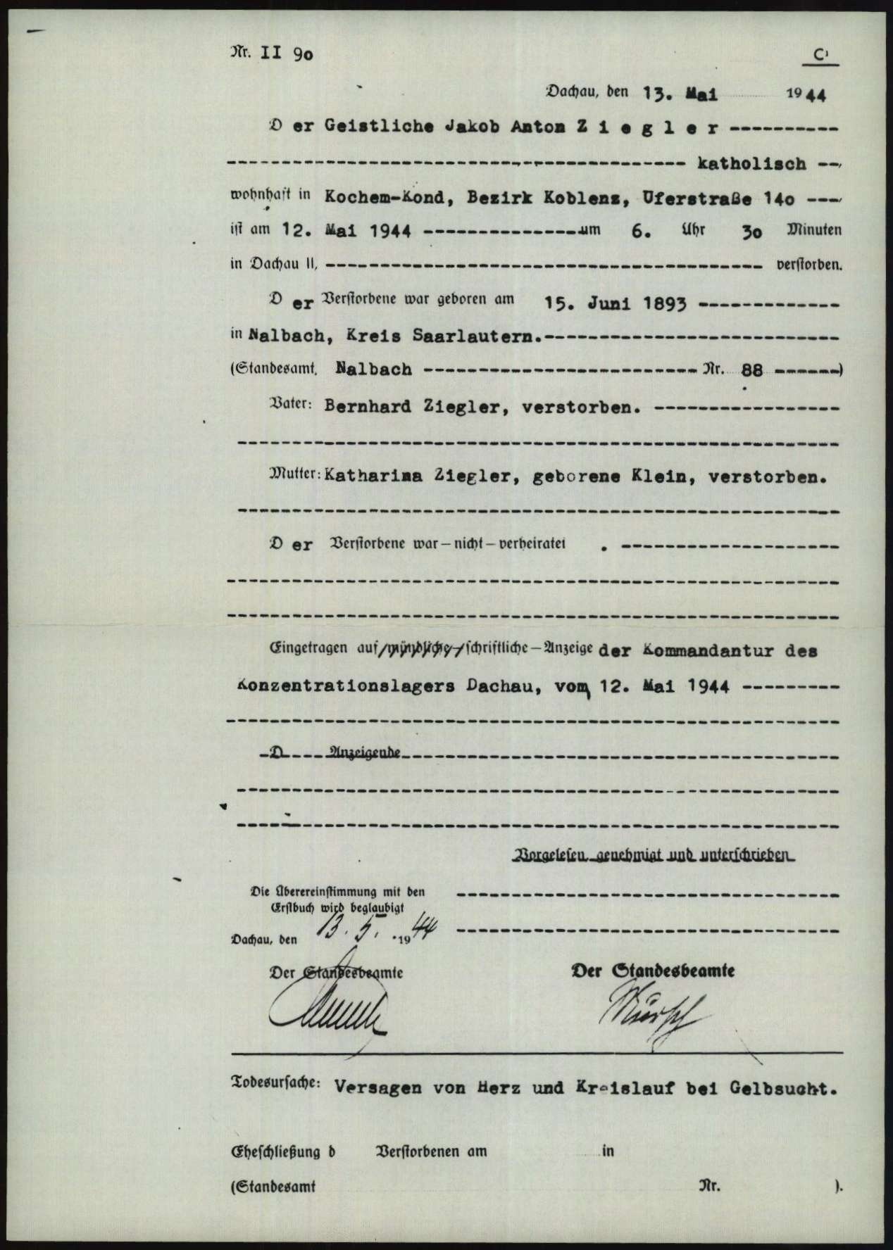 Death certificate of Jakob Anton Ziegler while a prisoner at Dachau Nazi Concentration Camp.